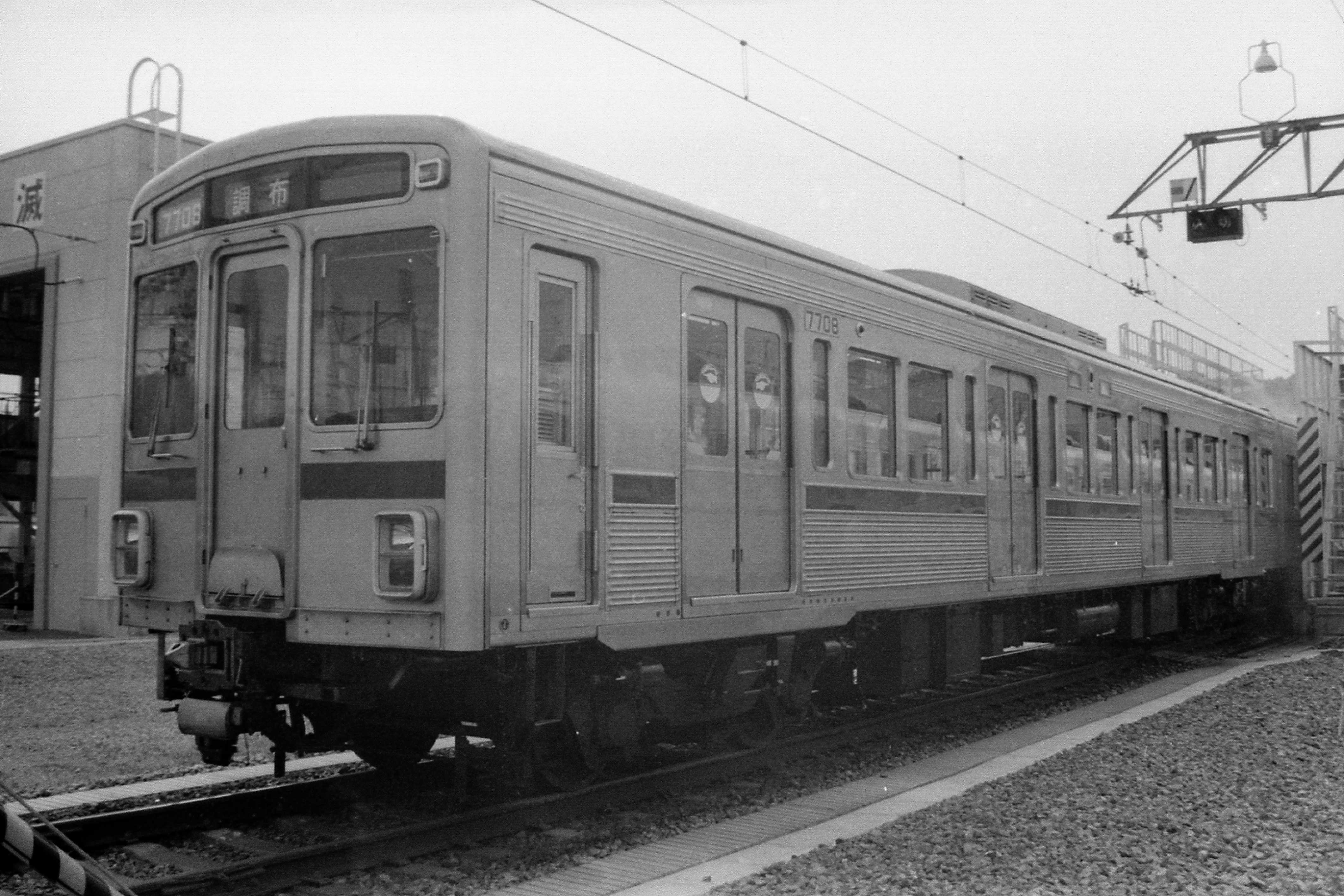 Keio 7708 at Wakabadai